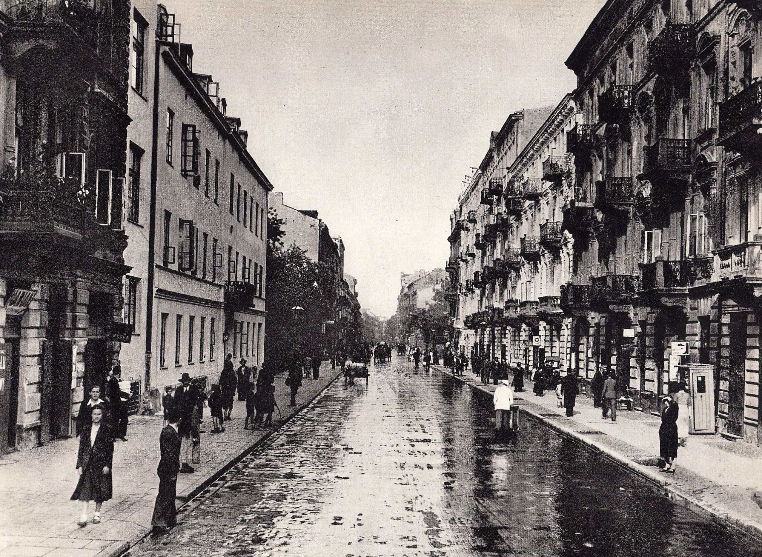 Nowolipki Street in Warsaw